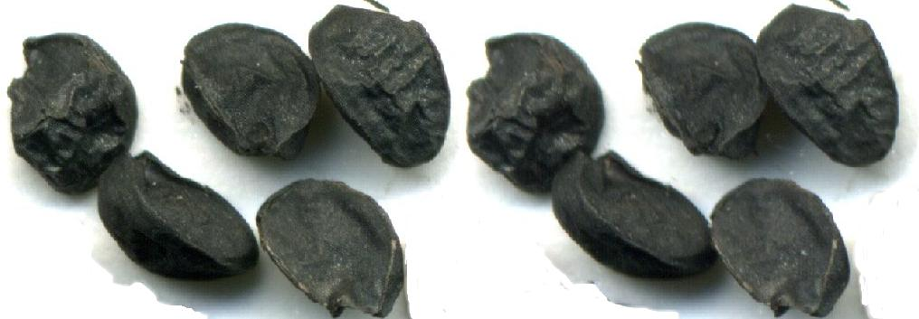 Stereoscopic picture of Onion seeds.